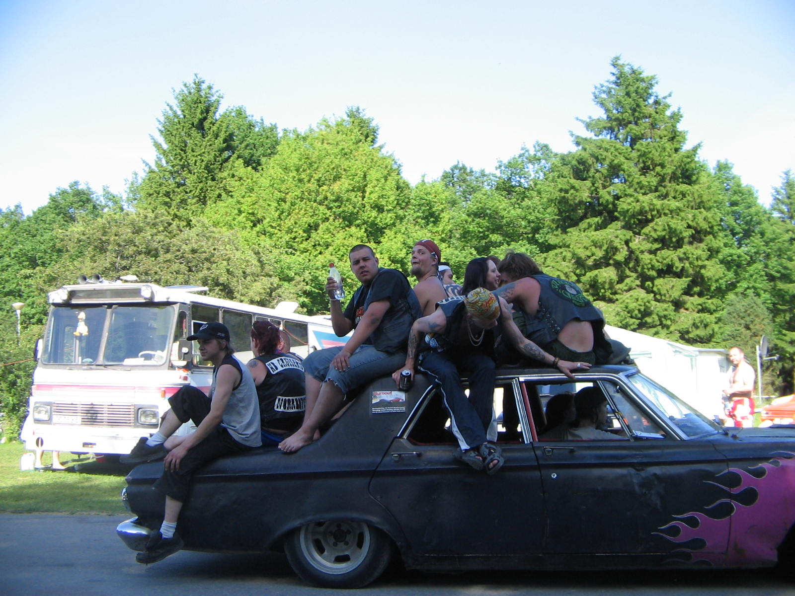 1963 or 1964 Plymouth Fury I - four-door sedan.